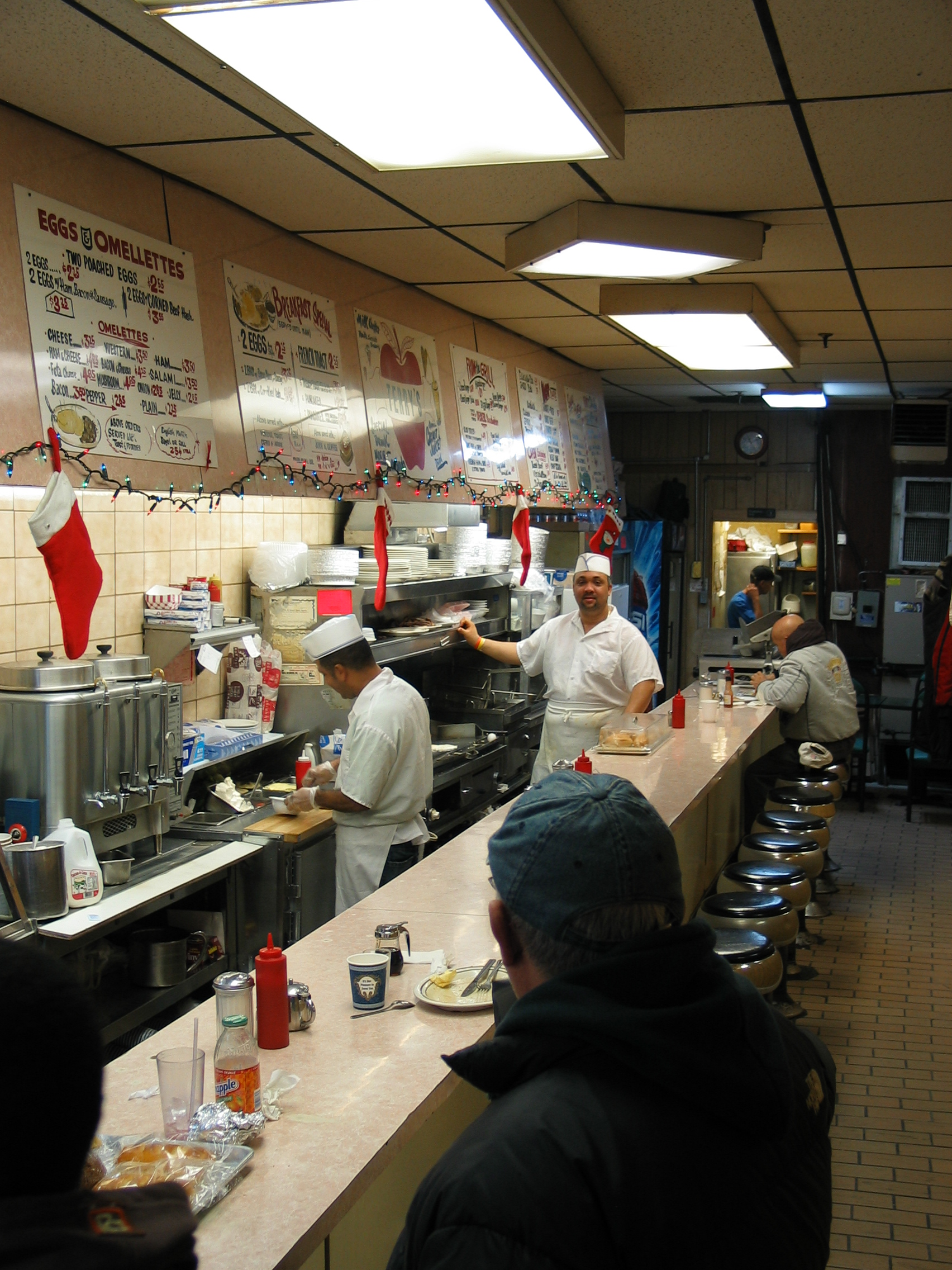 Terry's Coffee Shop, 291 Broadway, Brooklyn close to Marcy Ave station (awesome breakfast ;-) )